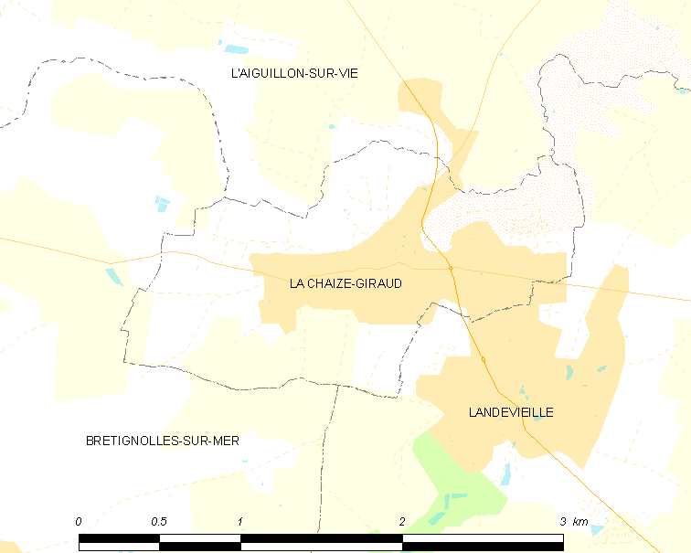 Map of French municipality La Chaize-Giraud